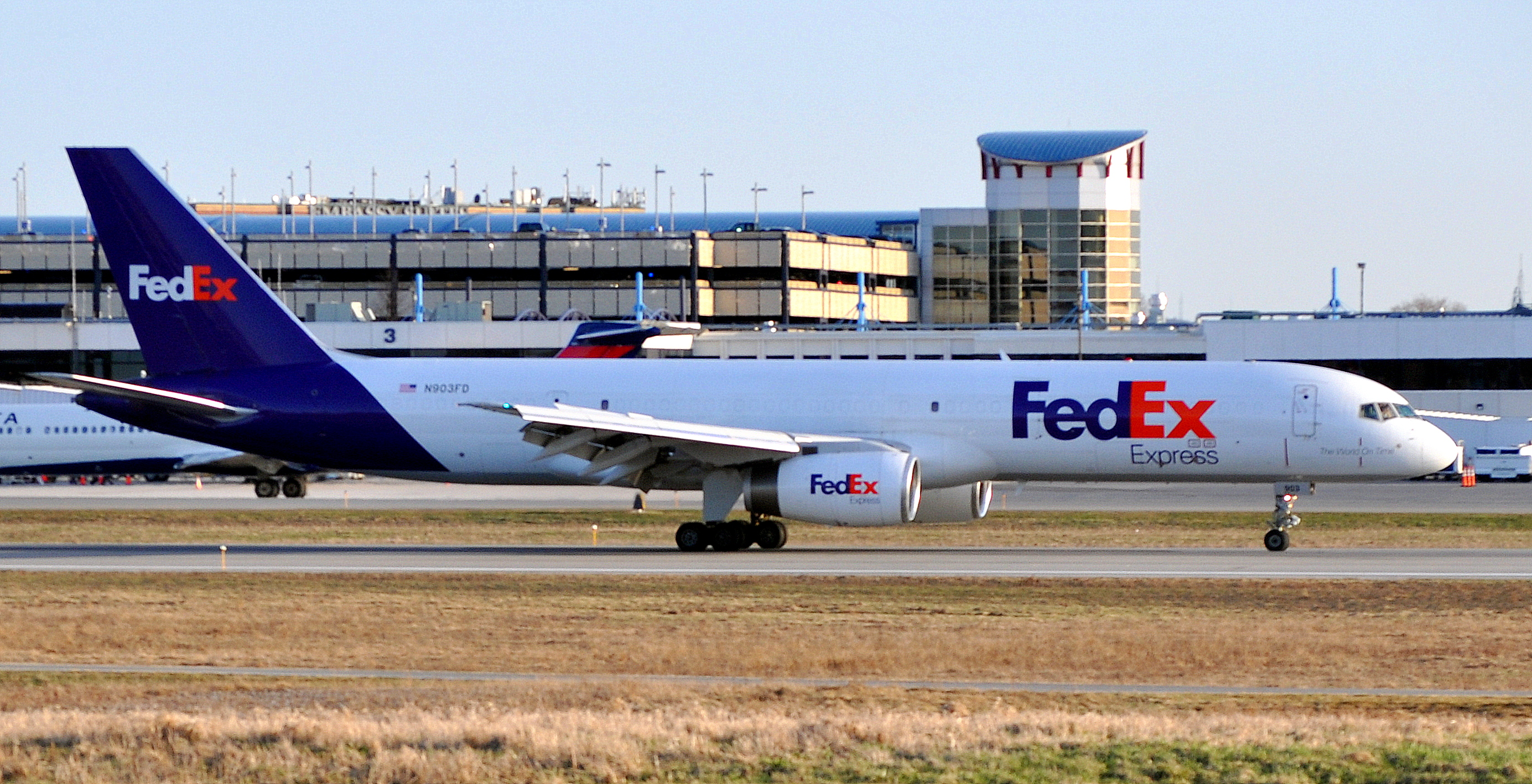 Fedex Express 757 Taxing to cargo At PWM